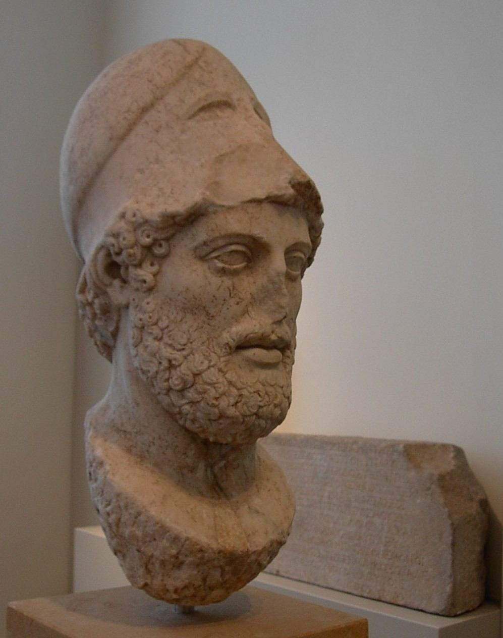 Pericles, Roman copy of a Greek work sculpted after 429 BC. (Berlin, Altes Museum).